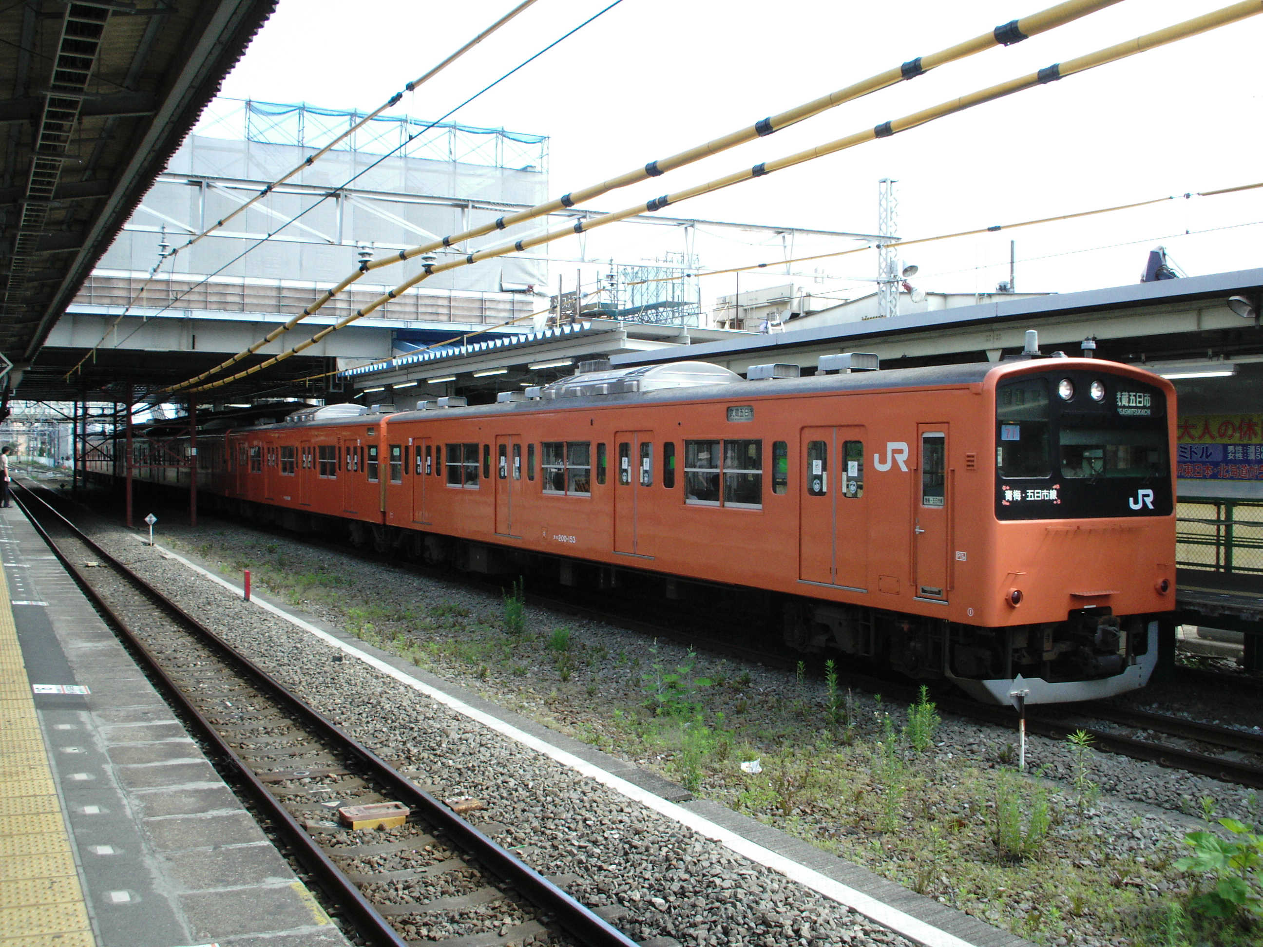 A JR East 201 series EMU used on Ome and Itsukaichi Line services at Haijima Station